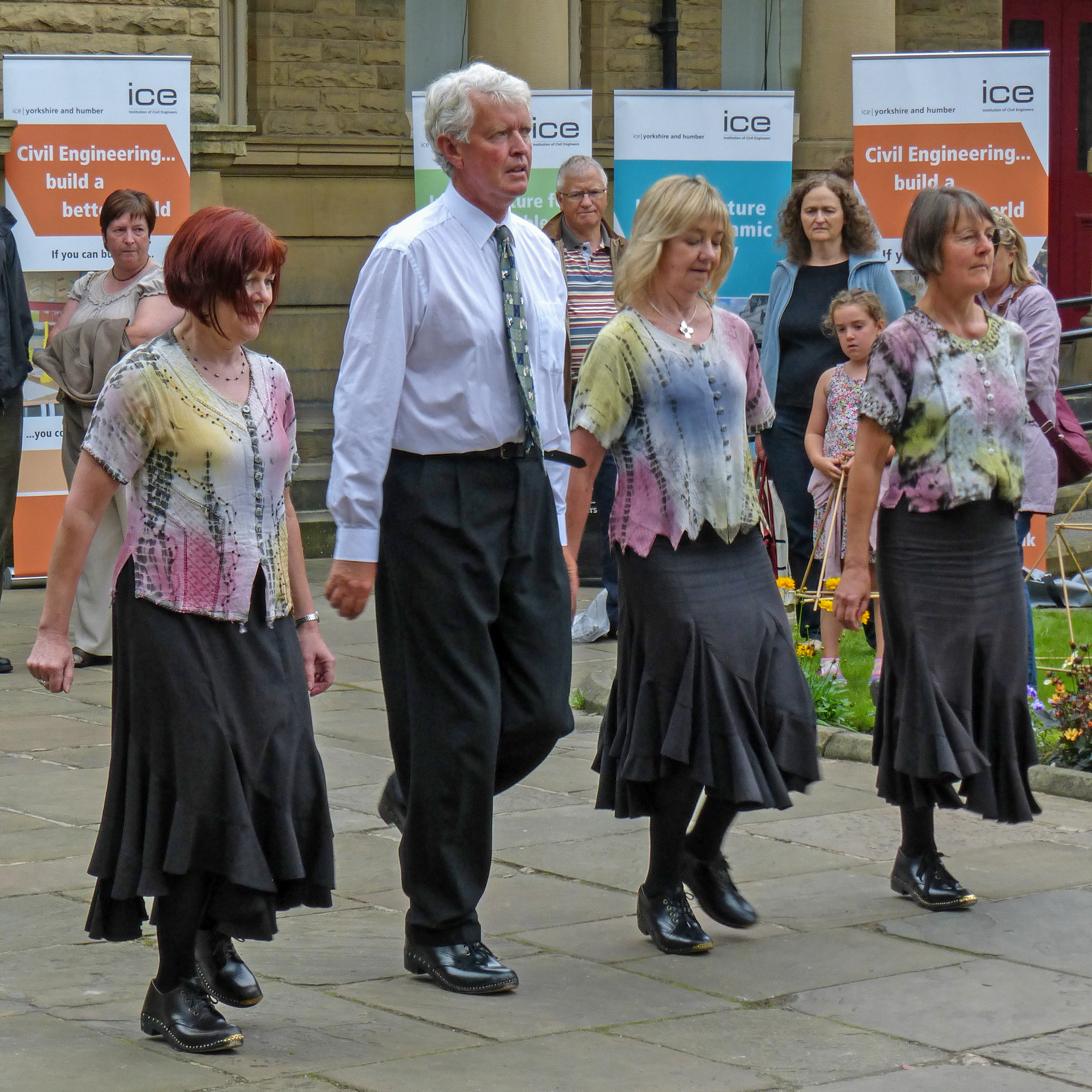 Spot the odd one out ...